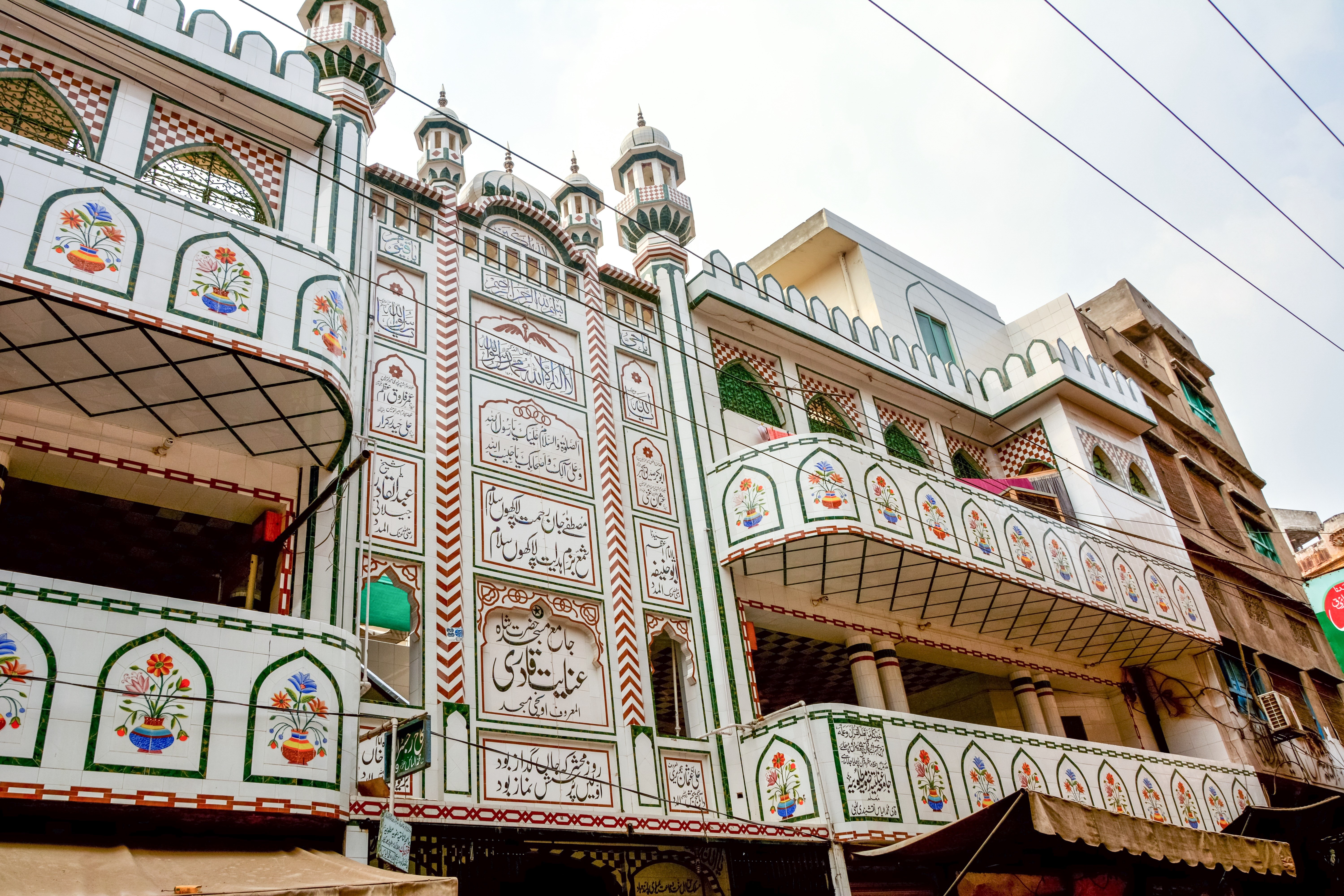 Unchi Masjid This is a photo of a monument in Pakistan identified as the PB-P-119